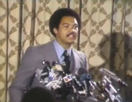 Reggie Jackson signs with the New York Yankees, still image taken from a film dedicated to the public domain per about the life and times of George Steinbrenner.